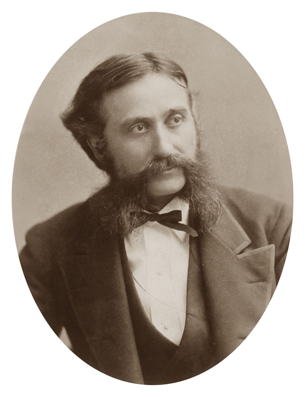 Hubert Howe Bancroft (1832–1918), American historian and ethnologist. Namesake of the Bancroft Library, University of California, Berkeley, USA.